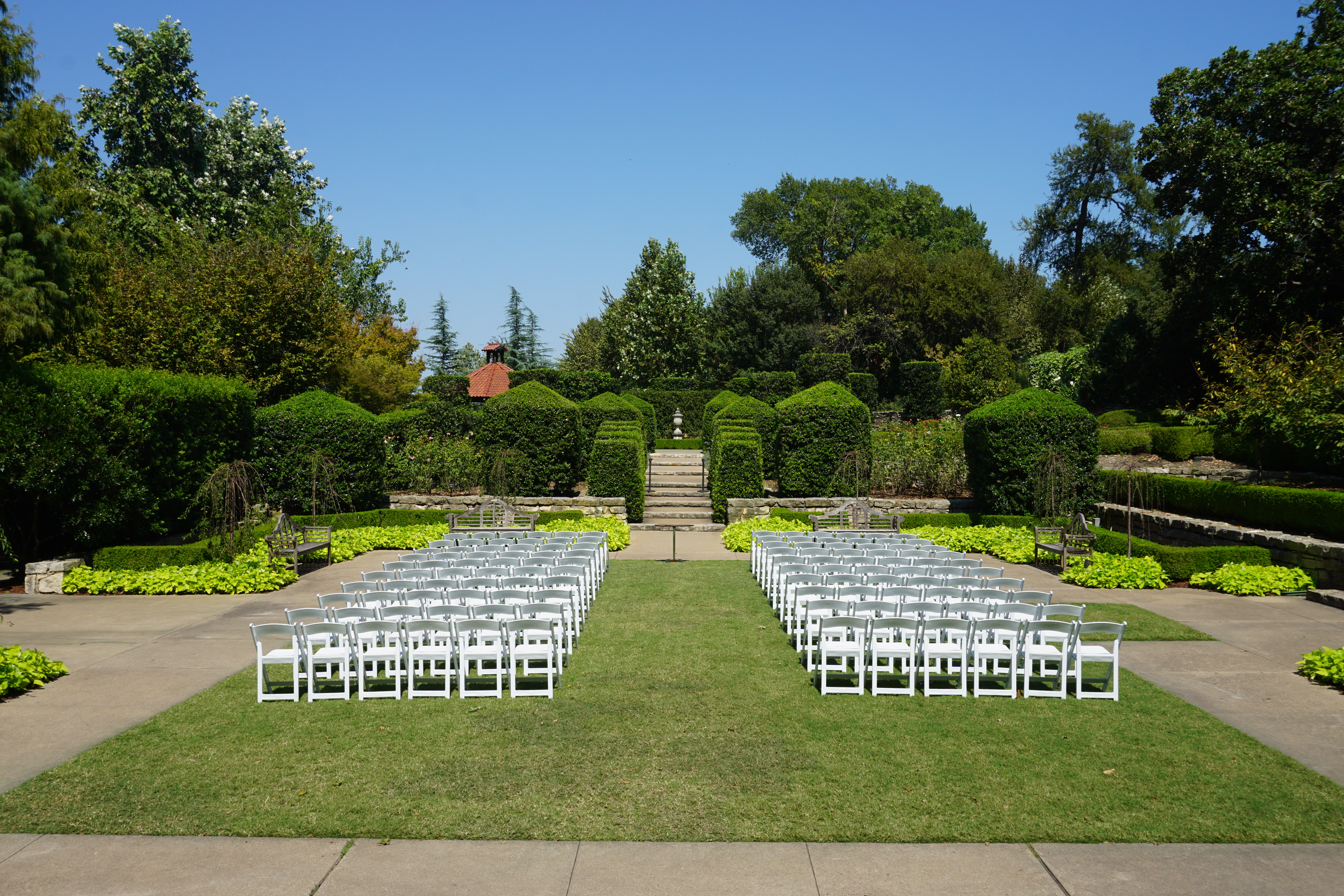 The McCasland Sunken Garden at the Dallas Arboretum and Botanical Garden in Dallas, Texas (United States).